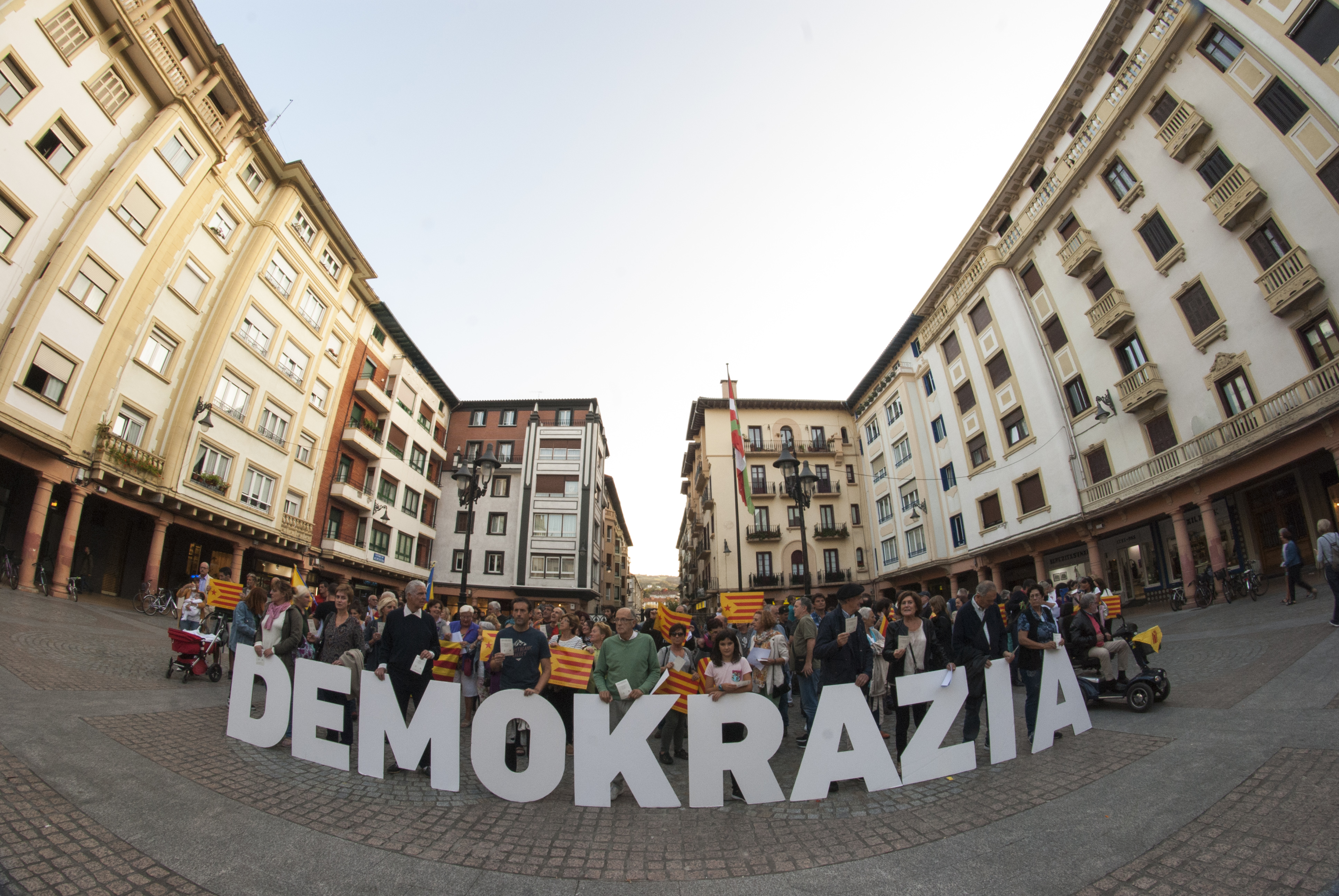 Demonstration in Zarautz, Basque Country, in solidarity with the events in Catalonia, called by Gure Esku Dago on 20 September 2017.